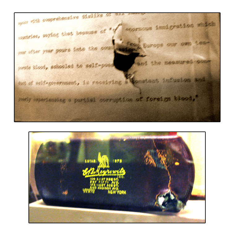 Here are two photos depicting assassination bullet damage to Theodore Roosevelt's speech manuscript and steel eyeglass case. These two photos were taken by Richard W. Allen, at the US National Park Service's Roosevelt Birthplace on 28 E. 20th Street, New York, NY in July 2007. These photos are of the genuine artifacts and were captured by me through the glass case at the site. I enhanced the contrast and sharpness. And I grouped them into one collage image using Photoshop. Visitors to this public National Park Service site can also see the bullet-damaged shirt TR was wearing. Incidentally, the name on the eyeglass case is that of an optician firm, E.B. Meyrowitz. These artifacts were property of the U.S. Department of Interior when photographed.